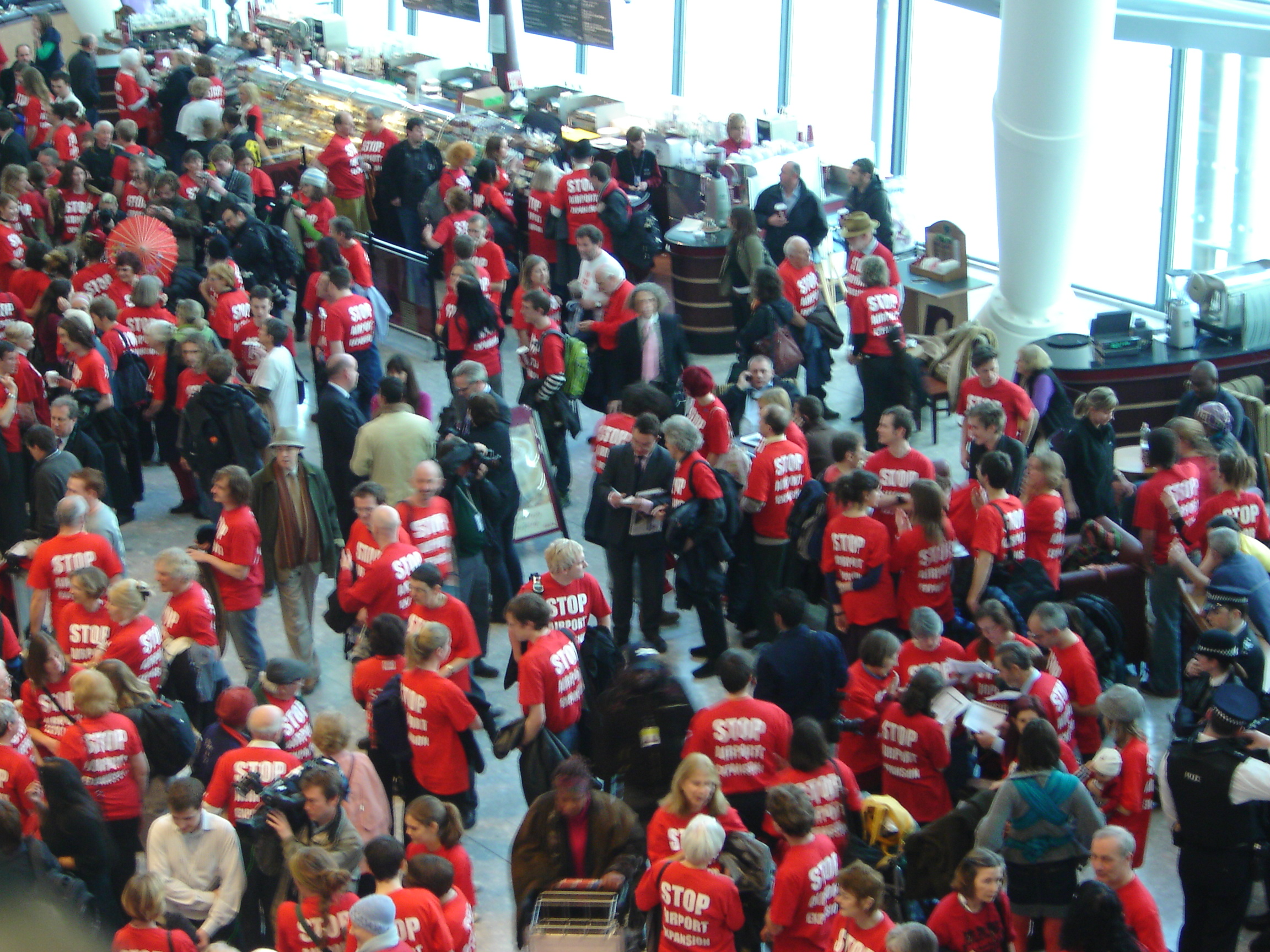 Photo taken during Heathrow Terminal 5's opening, hundreds of protesters turned up to protest at Heathrow's continued expansion. Only Heathrow's own home made baggage fiasco prevented the protest from reaching the headlines.